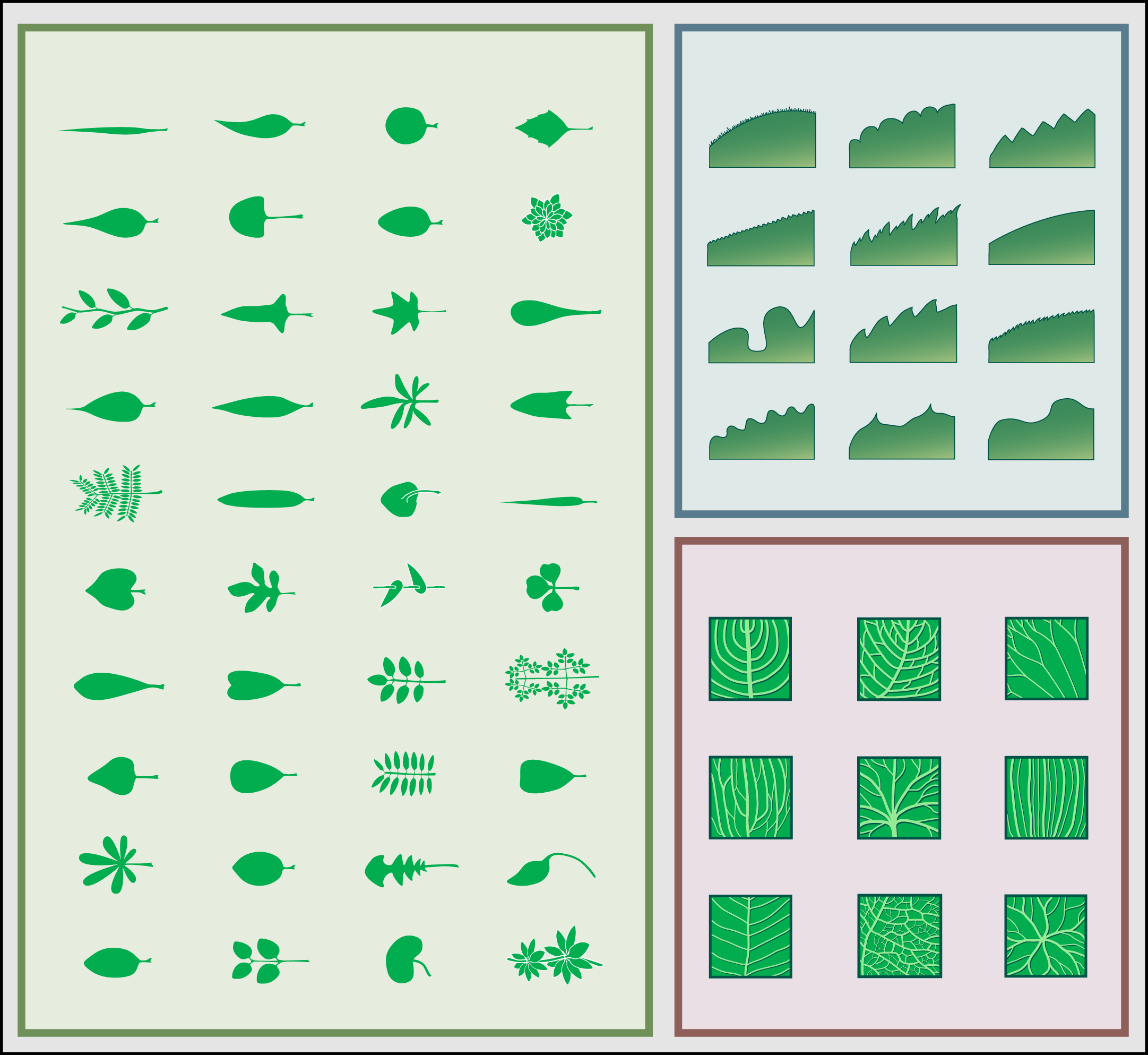 Blank version of the English wikipedia leaf morphology chart, for other language Wiki localization